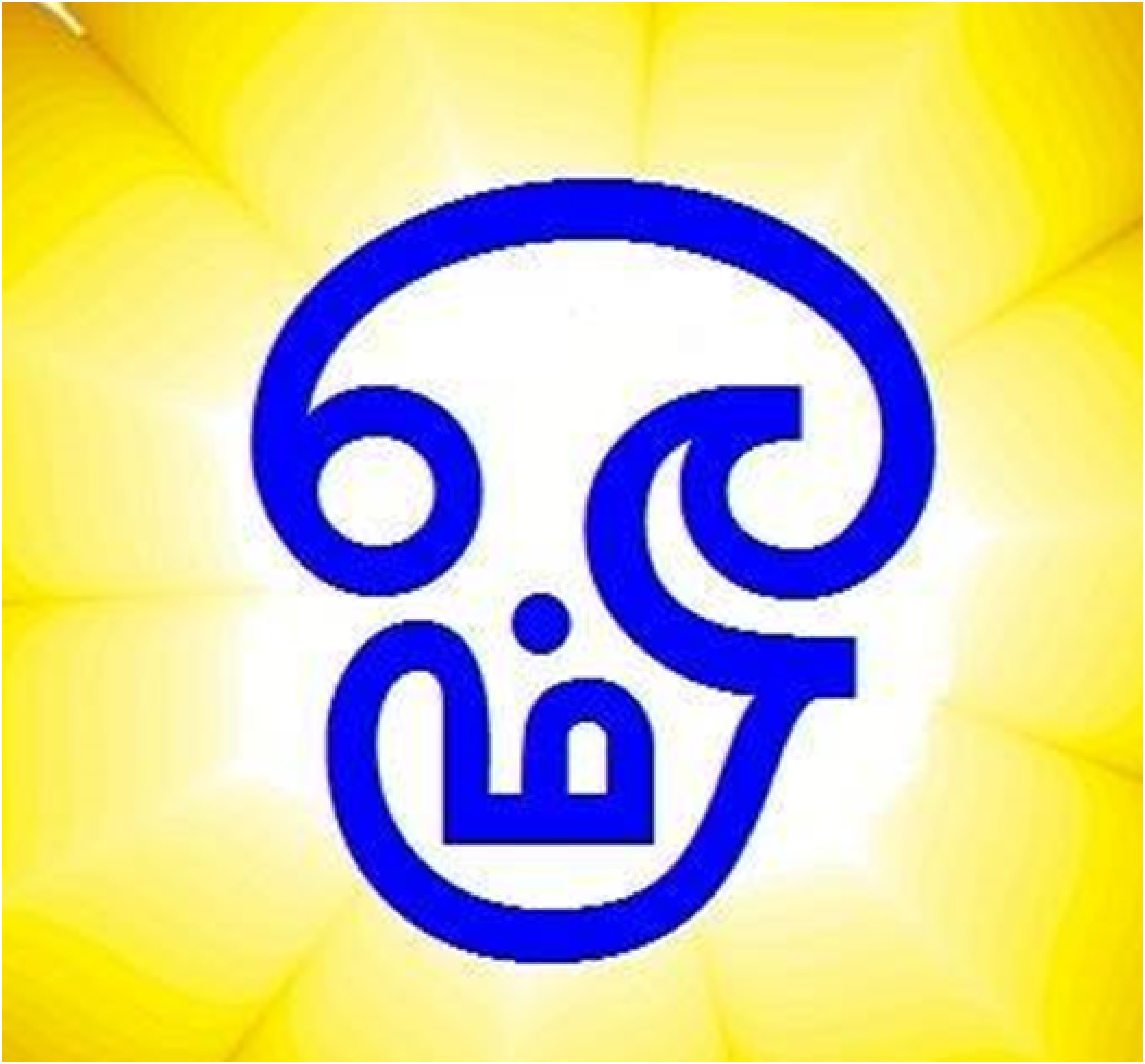 Spiritual symbol